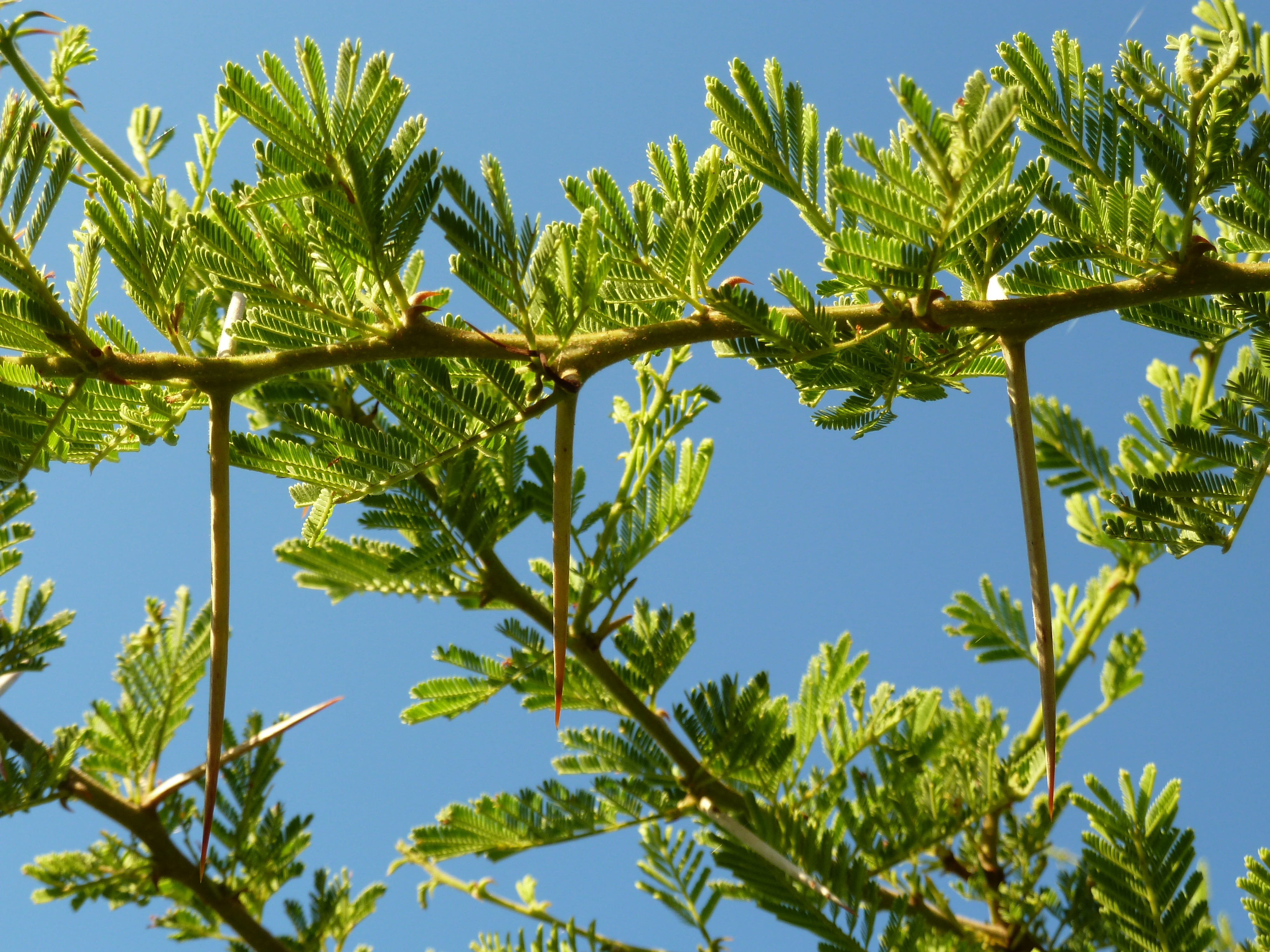 Combination of paired straight thorns and paired hooked thorns of an Umbrella thorn on the Springbok Flats, Limpopo, South Africa